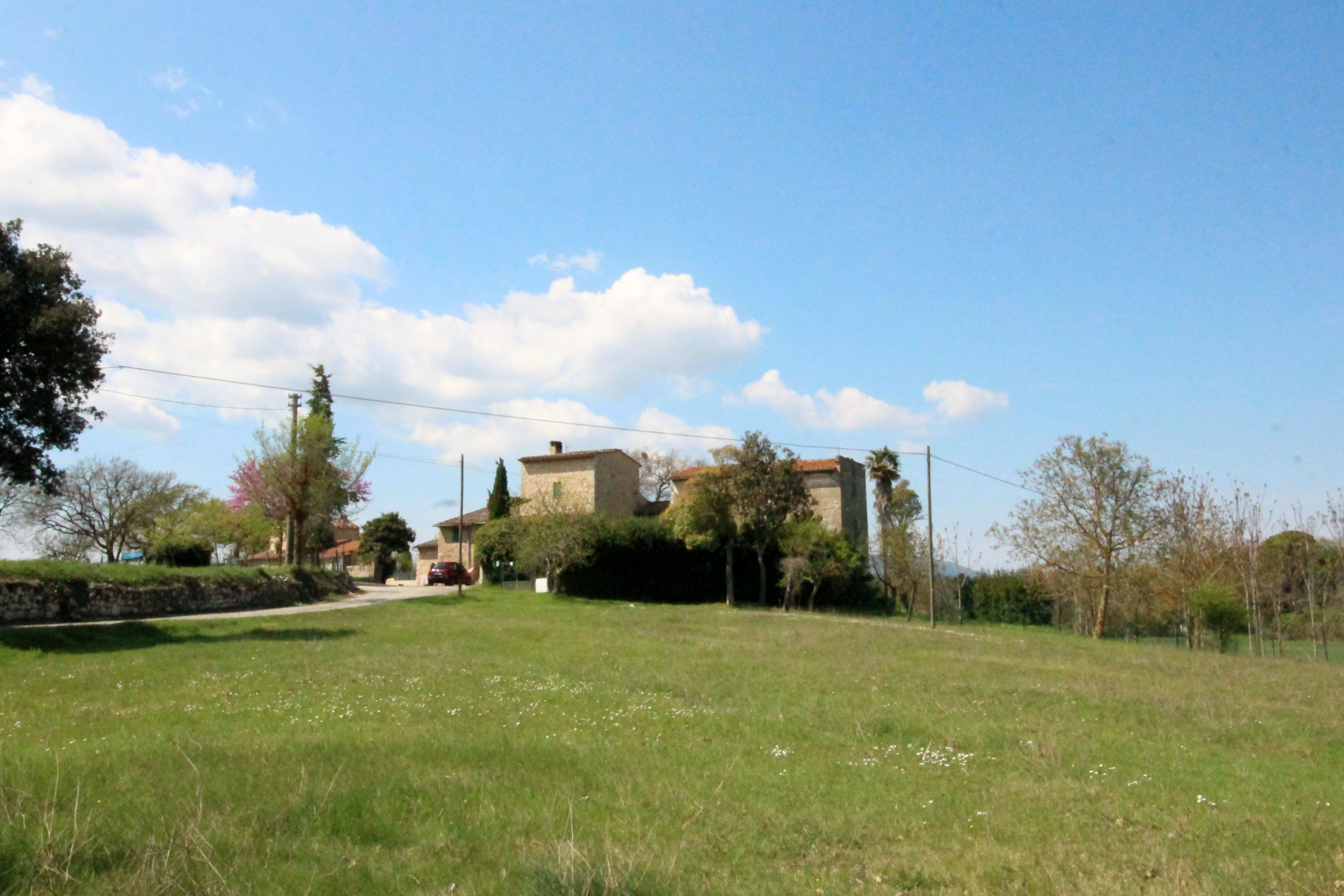 Coneo, village in the territory of Colle di Val d'Elsa, Province of Siena, Tuscany, Italy